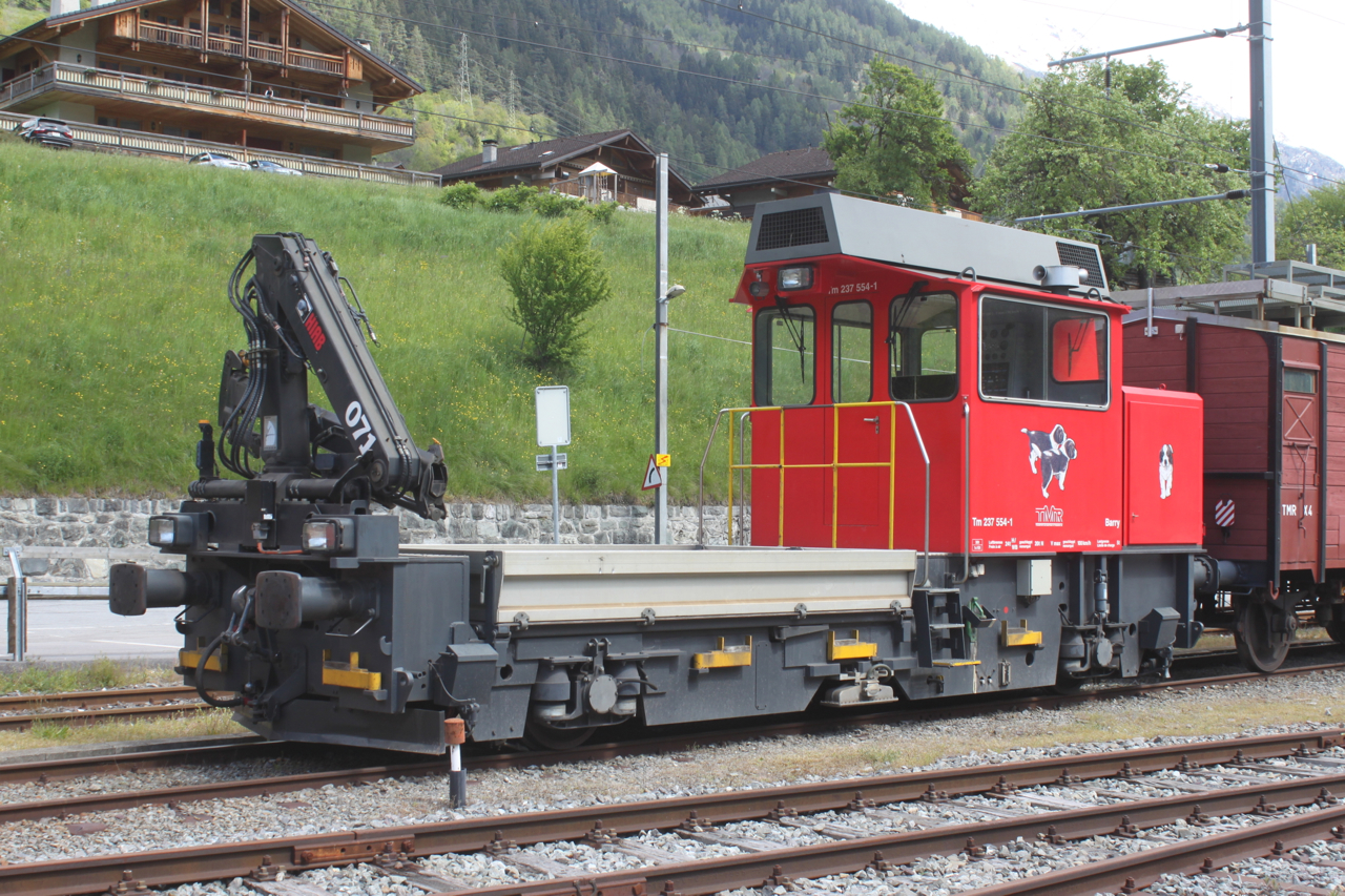 TMR Tm 237 554-1 at Le Châble station. Current number 98 85 5 234 354-9